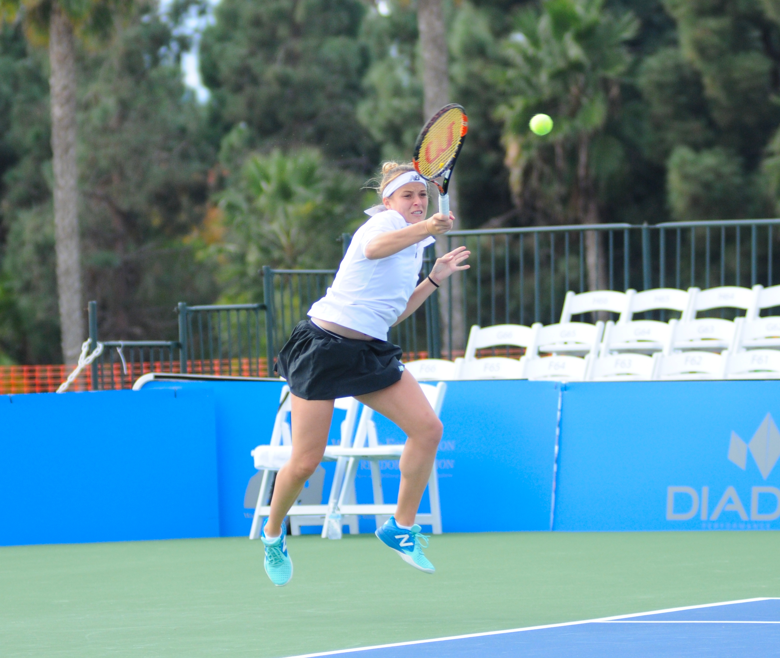 2015 Carlsbad Classic